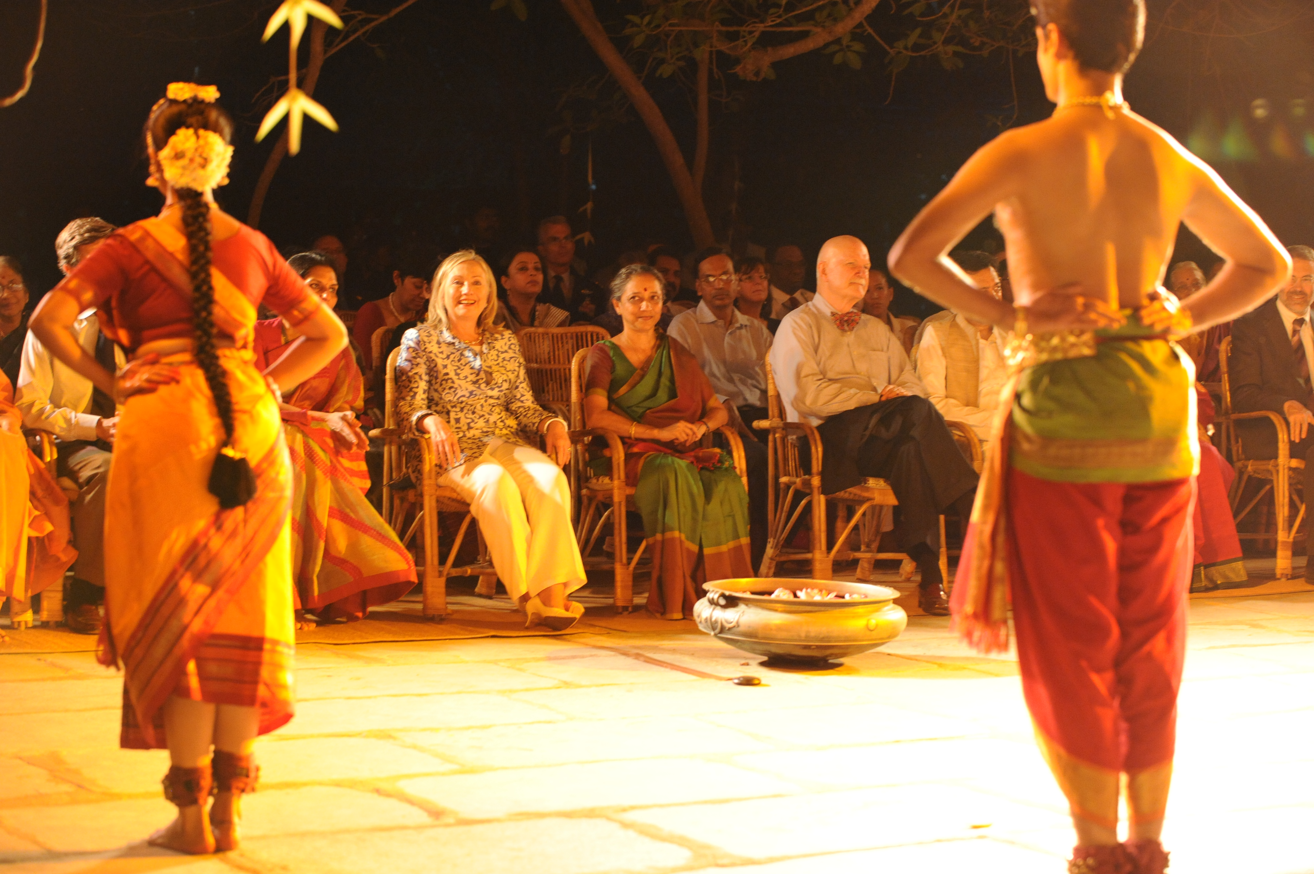 U.S. Secretary of State Hillary Rodham Clinton; Leela Samson, Managing Director of the Kalakshetra Foundation; and Ambassador Peter Burleigh, Chargé d'Affaires of U.S. Embassy in New Delhi, India; enjoy the Bharat Natyam performance at Kalakshetra in Chennai, India, on July 20, 2011. [Paul Cohn/ State Department photo]